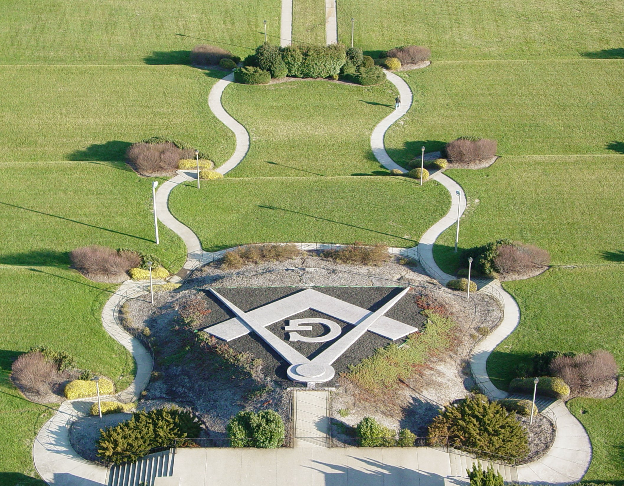 Square and Compasses on the grounds of the George Washington Masonic National Memorial, as seen from the observation deck. Photo by Ben Schumin on December 27, 2006.